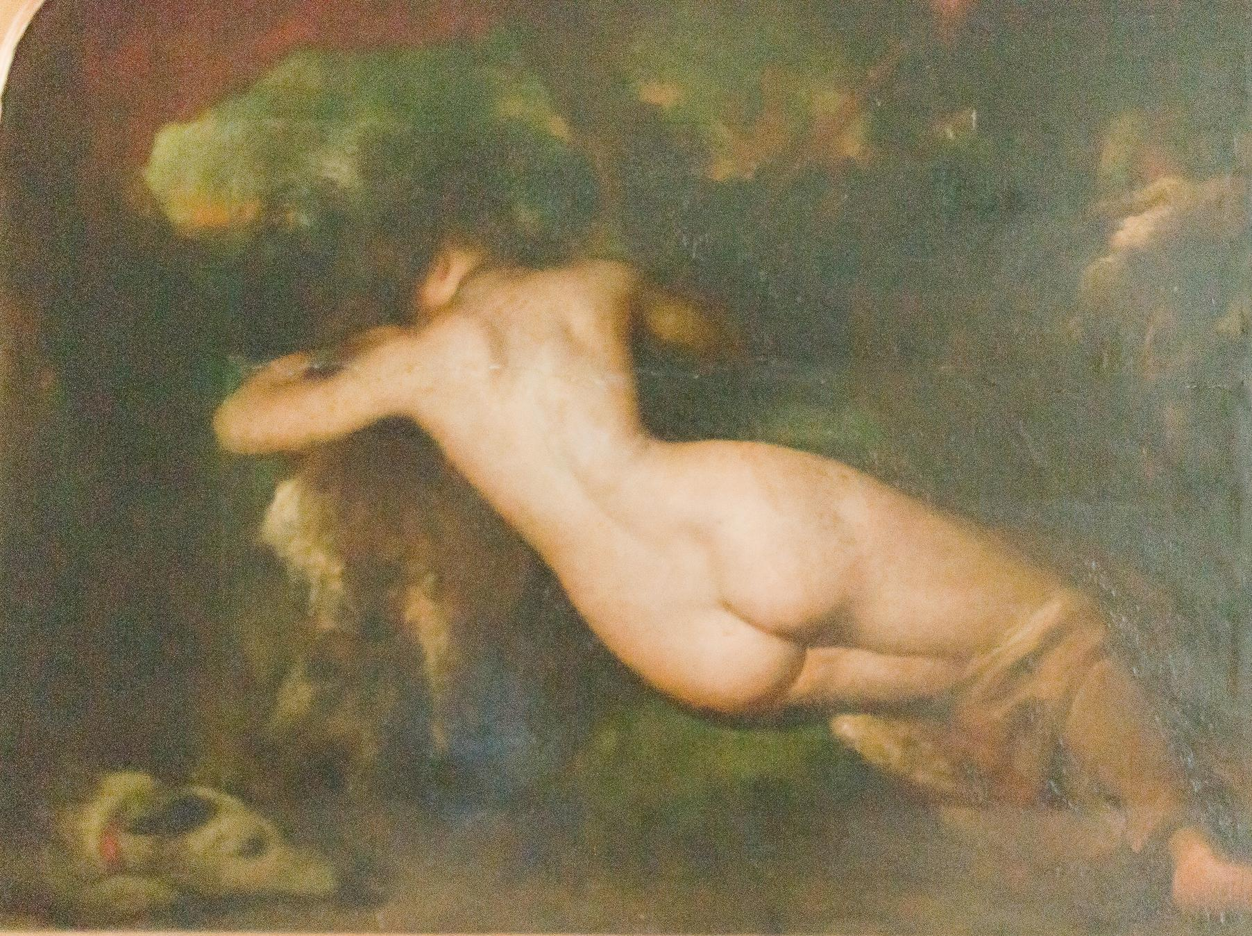 Reclining Diana, London 1829.